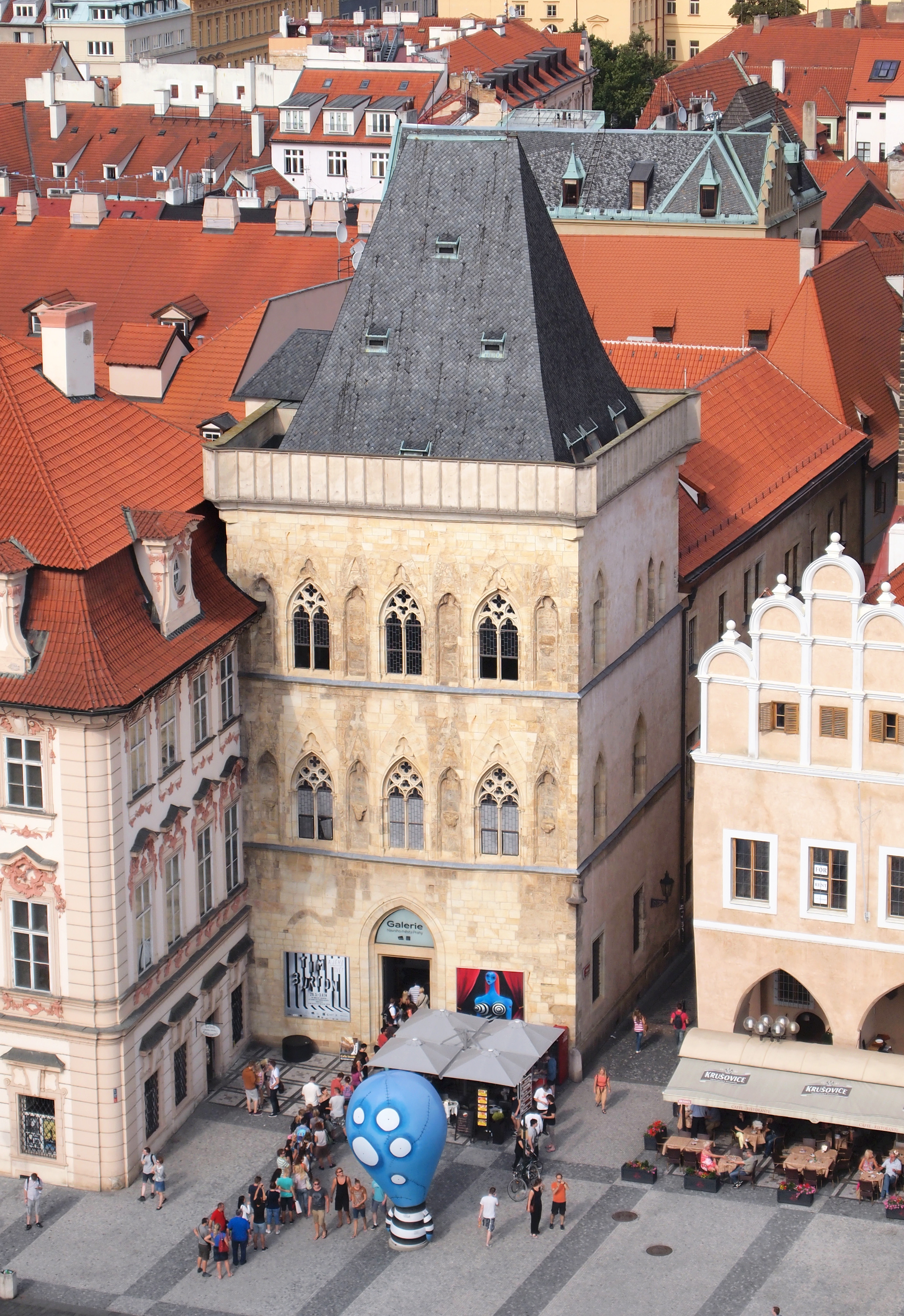 Building Dum U Kamenneho zvonu in Prague. This photograph was taken with an Olympus E-PL1